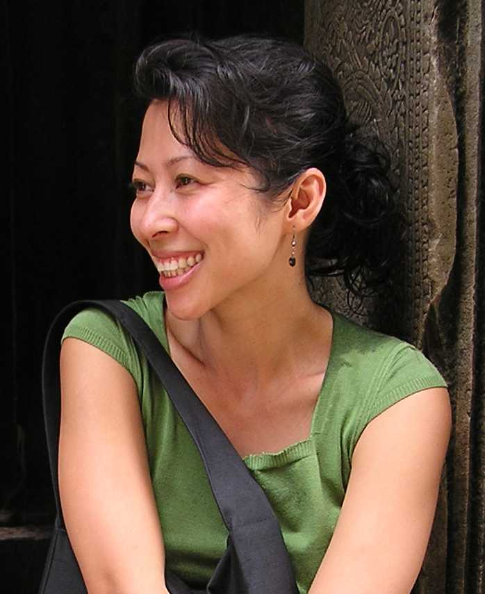 Loung Ung, author and human-rights activist This picture of Loung Ung is my property, and I own all rights to it. I am placing it in the public domain.